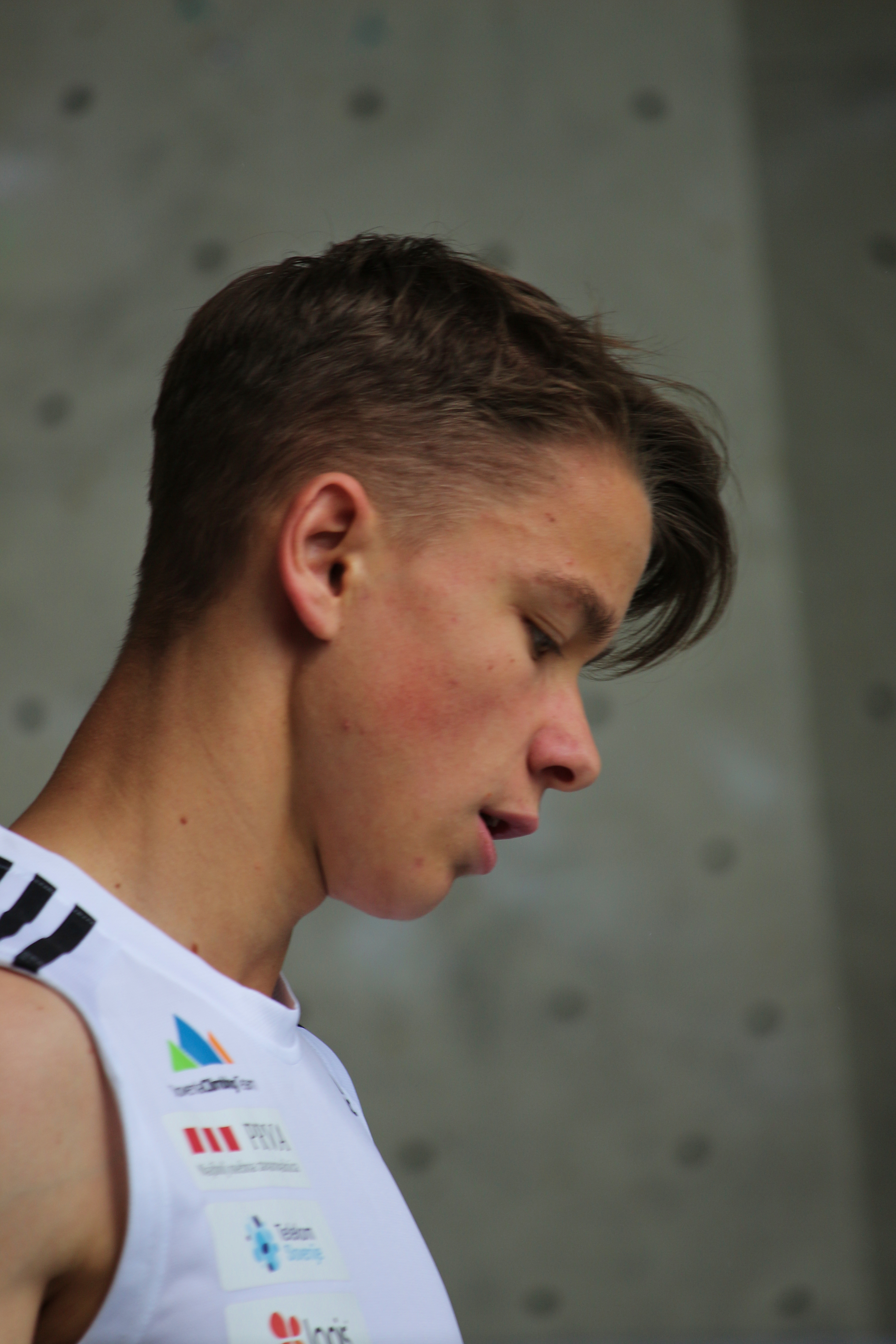 Luka Potocar